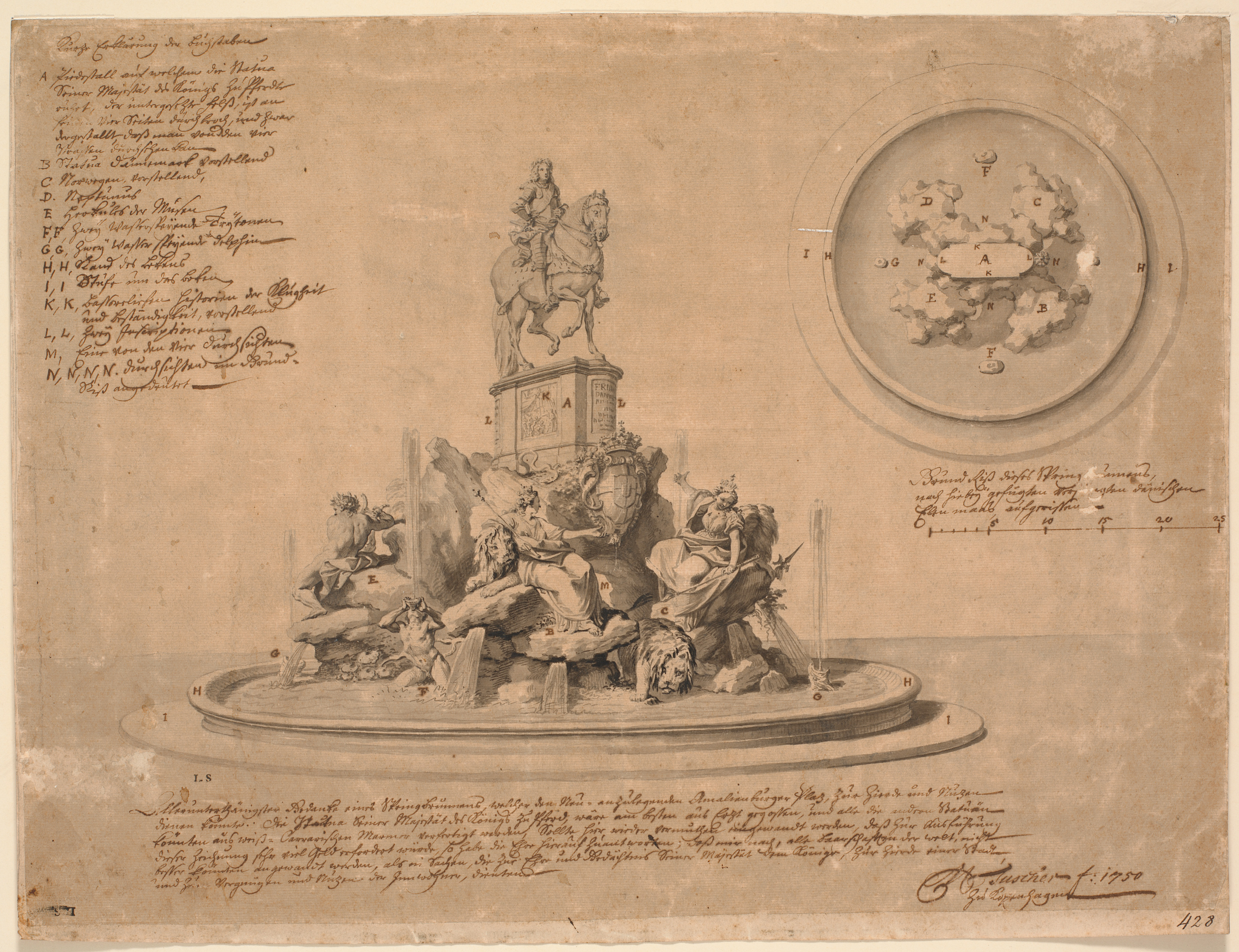 Proposal for a equestrian monument to King Frederick V in Amalienborg Square. 1750. Pencil, pen, ink, and grey wash. 355x472 mm. The Royal Collection of Graphic Art.